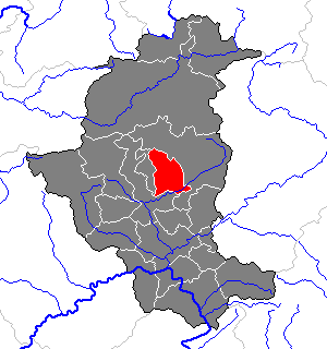 This map shows the area of the Gemeinde (municipality) Aflenz Land in the Bezirk (district) Bruck an der Mur, Styria, Austria.